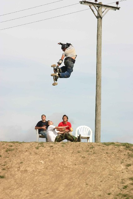 South West Mountain board centre. Practising for a competition at the South West Mountain board centre.